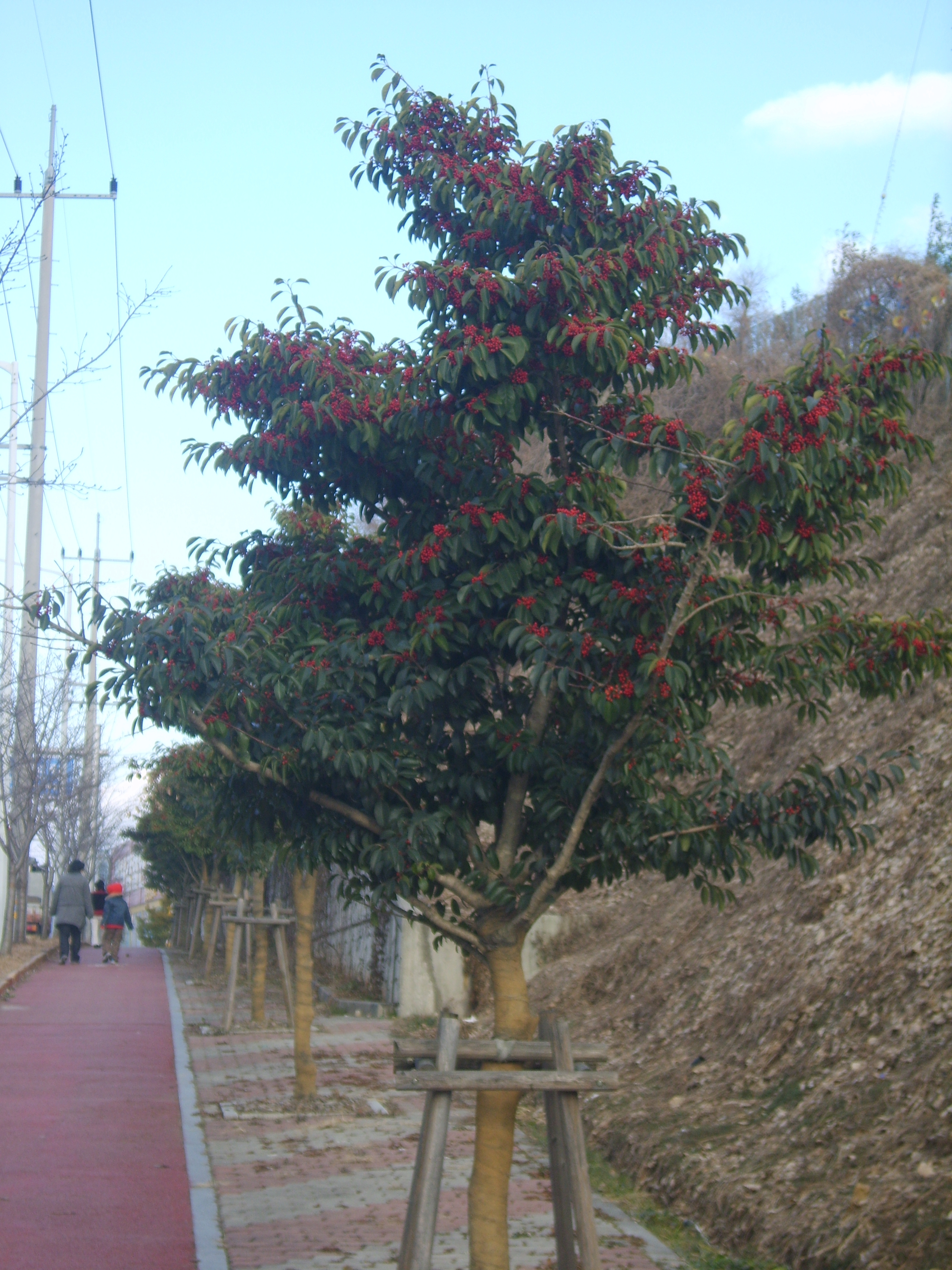 Ilex rotunda. roadside tree with fruit to remain by winter in Gwangju Korea. 광주 농성동에서 찍음. 열매를 달고 있는 먼나무 가로수.